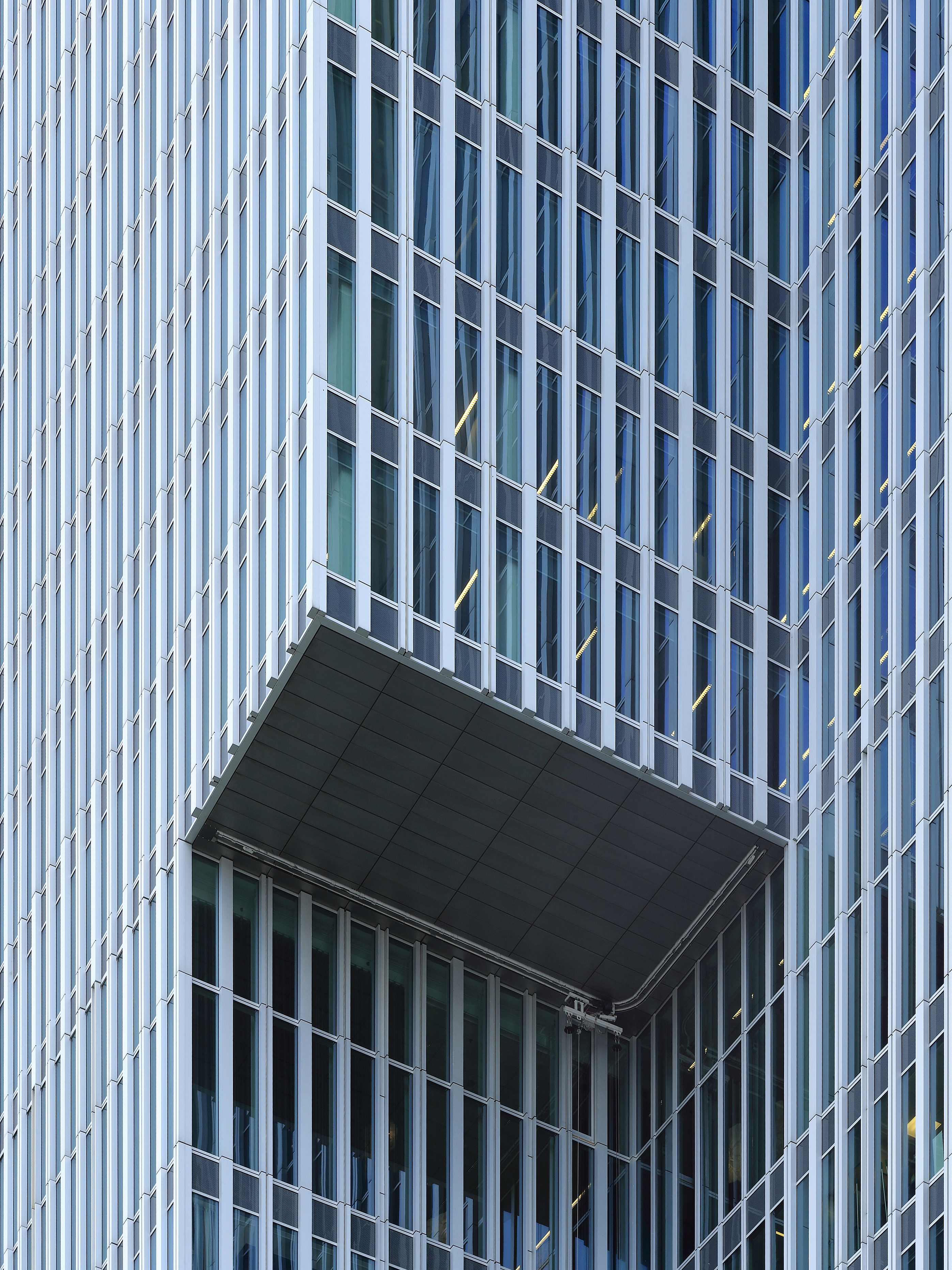 De Rotterdam is a building on the Wilhelminapier in the Kop van Zuid district in Rotterdam, designed by the Office for Metropolitan Architecture in 1998. Detail of facade.